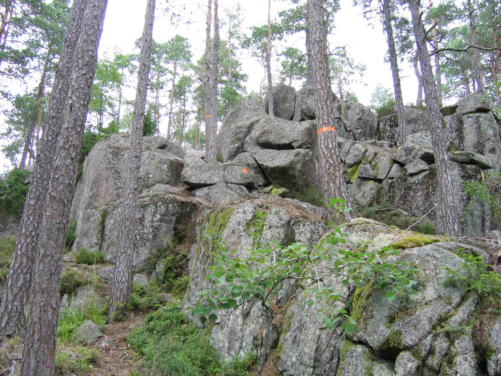 my own pic for wikipedia use